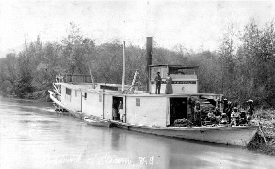 Annerly a small sternwheel steamboat, on the Kootenay River in British Columbia, 1893